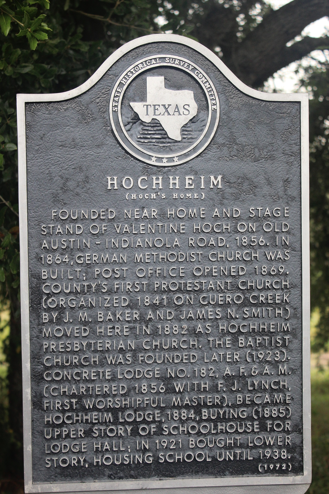 Hochheim (Hoch's Home). Founded near home and stage stand of Valentine Hoch on old Austin - Indianola Road, 1856. In 1864, German Methodist Church was built; post office opened 1869. County's first Protestant church (organized 1841 on Cuero Creek by J. M. Baker and James N. Smith) moved here in 1882 as Hochheim Presbyterian Church. The Baptist church was founded later (1923). Concrete Lodge No. 182, A. F. & A. M. (Chartered 1856 with F. J. Lynch, first worshipful master), became Hochheim Lodge, 1884, buying (1885) upper story of schoolhouse for Lodge Hall; in 1921 bought lower story, housing school until 1938. #2502